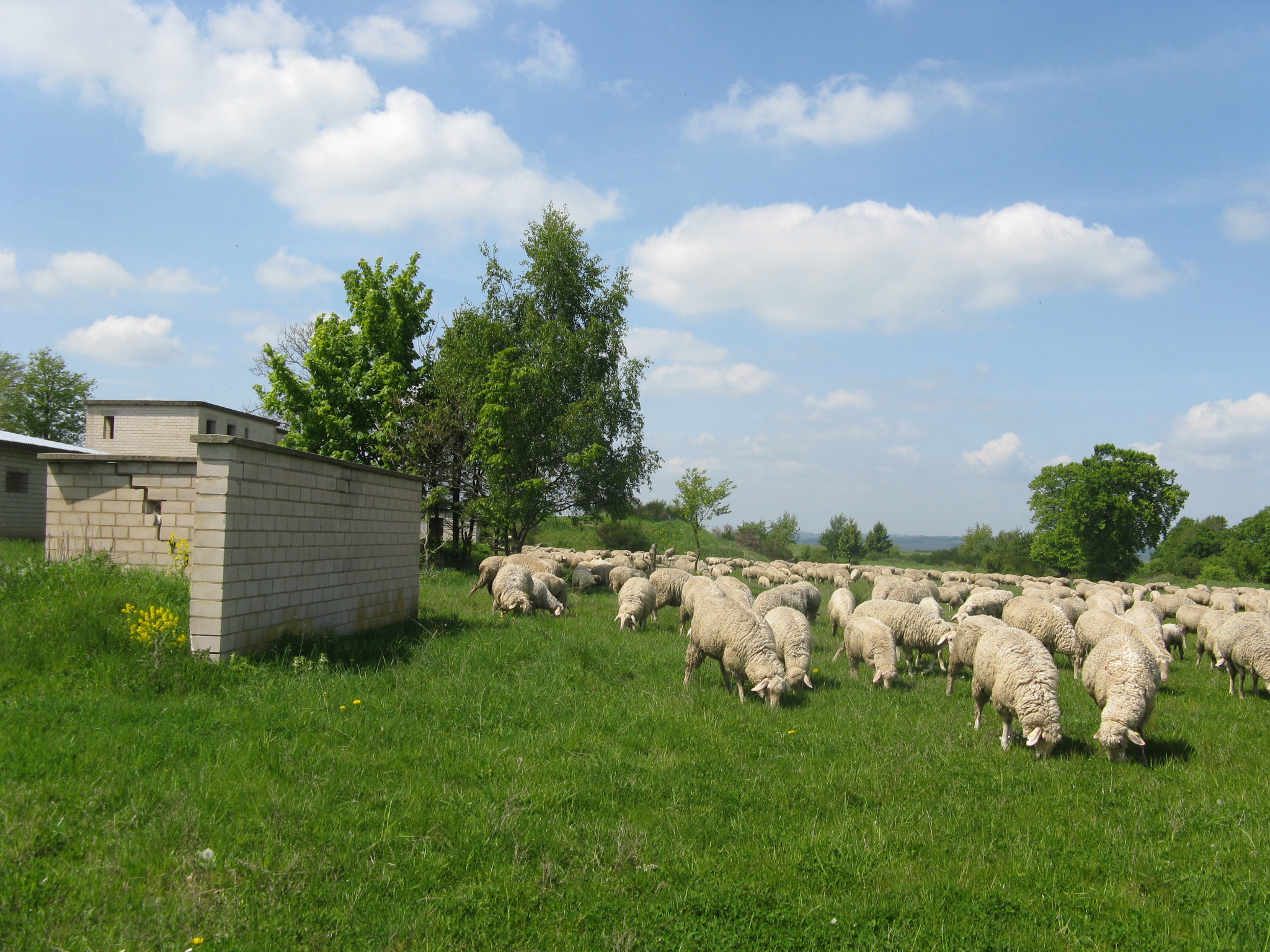 Wollseifen, Eifel/Germany, sheep